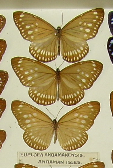 Andaman Crow (Euploea andamanensis)